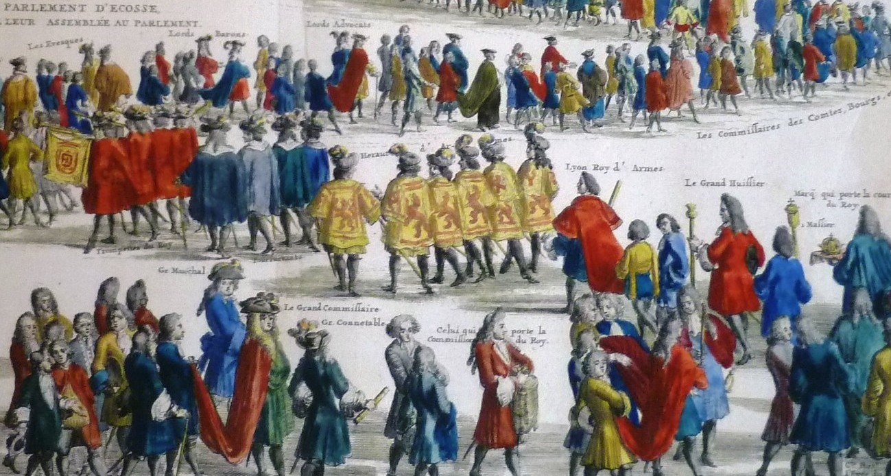 Detail from an illustration of an opening of the Scottish parliament from Châtelan and Gueudeville's 'Atlas Historique', 1720